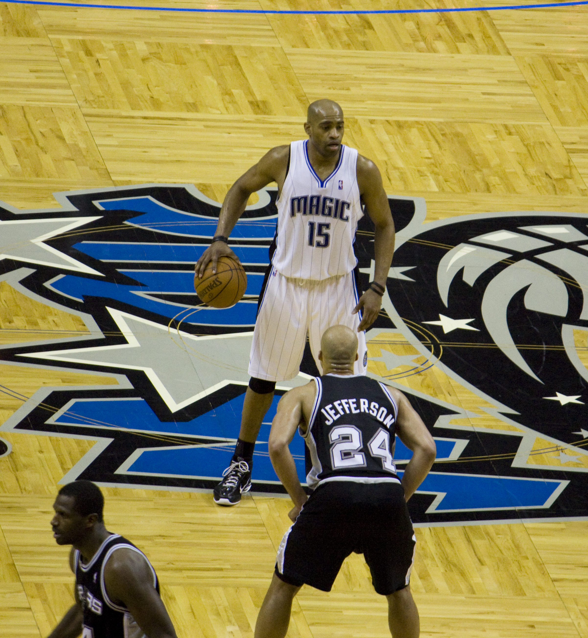 Vince Carter of the Orlando Magic.